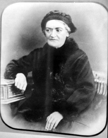 Portrait of Styliani Ploumidaki